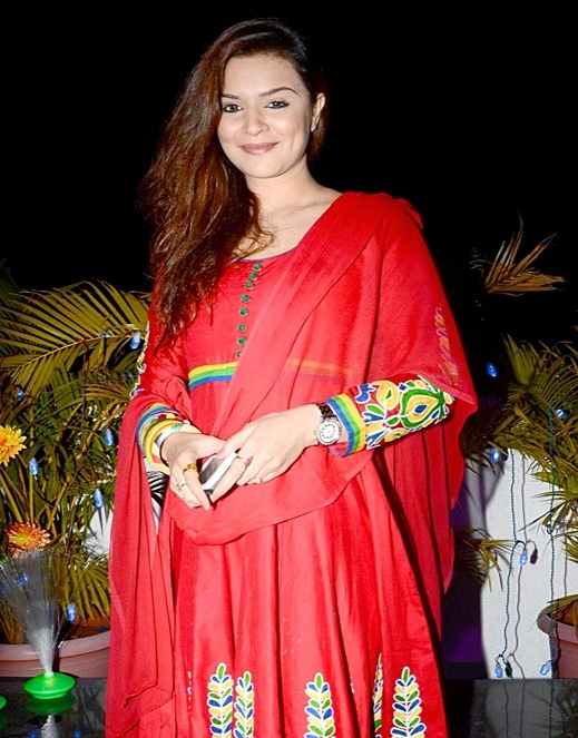 Aashka Goradia at the Launch of Santosh Sawant's 'Smiling Soul'